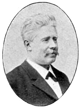 Image scanned from the book "Svenskt Porträttgalleri XX - Arkitekter, Bildhuggare, Målare m.fl. " ("Swedish Portrait Gallery XX - Architects, Sculptors, Painters, ") published 1901